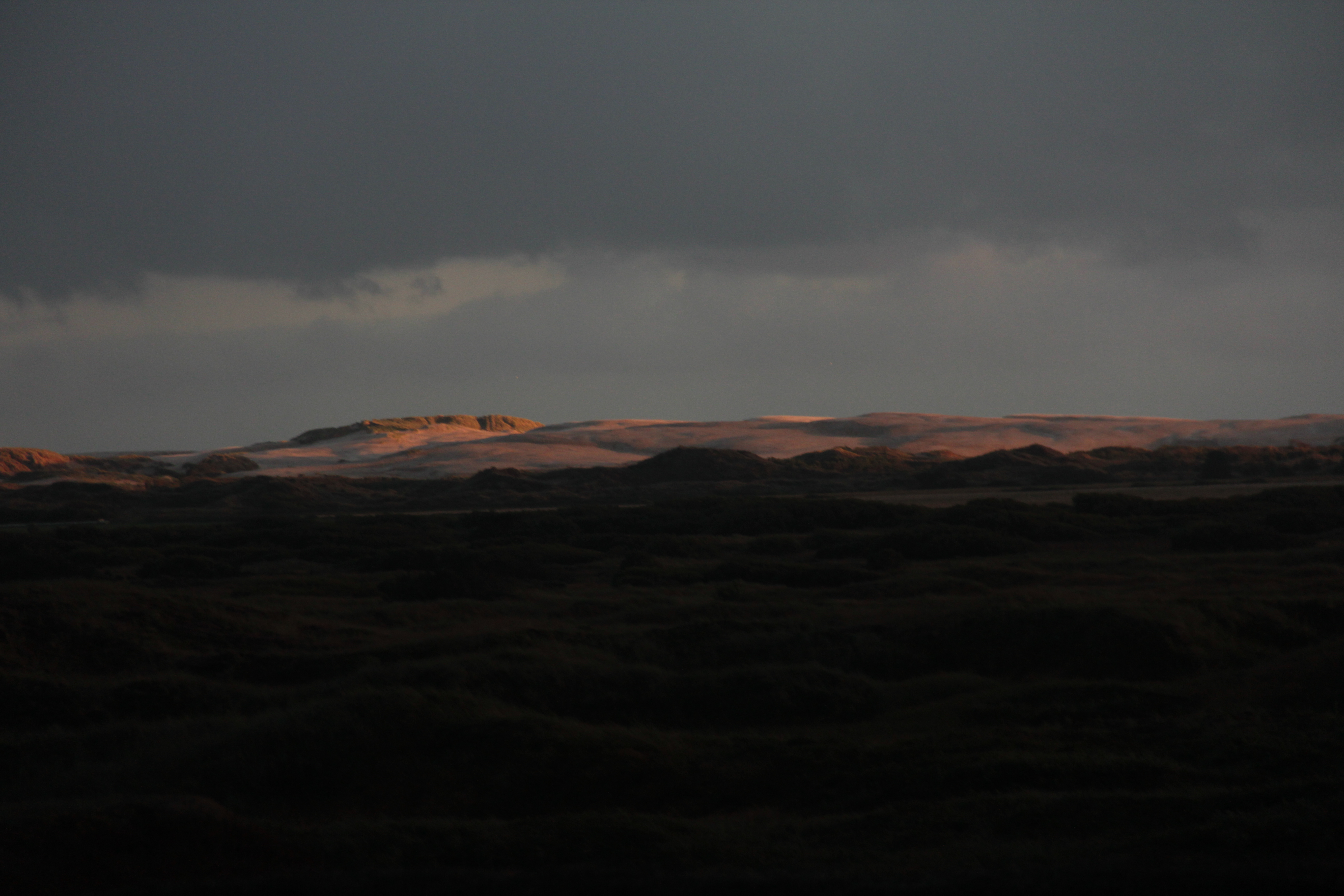 Sunset at Råbjerg Mile